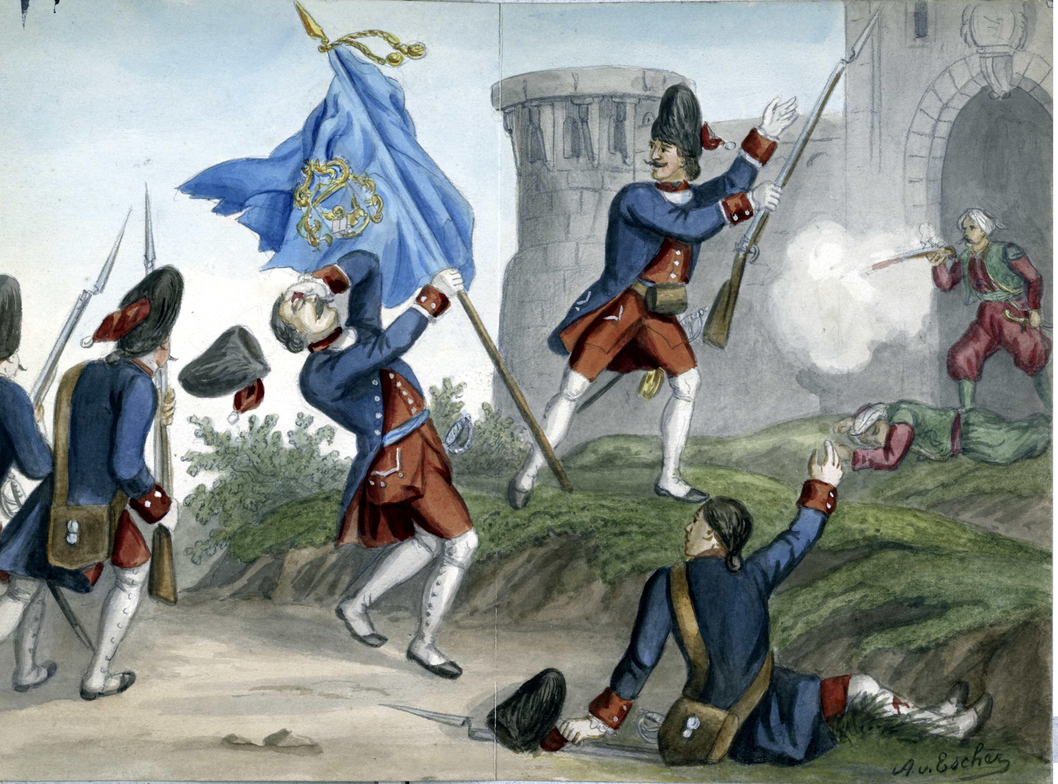 Venetian grenadiers of the Müller Regiment attack an Ottoman fort, 1717